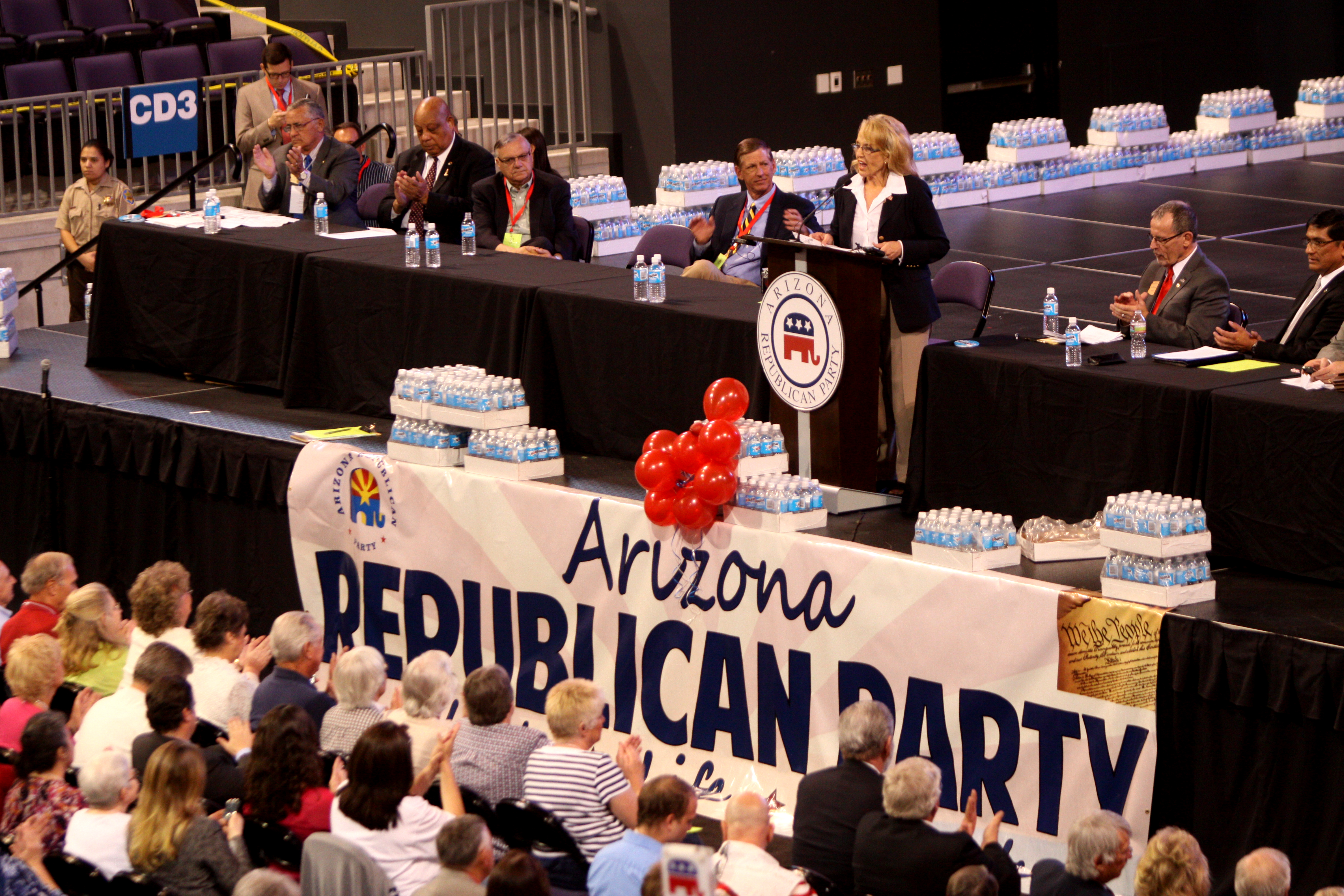 Governor Jan Brewer at the 2012 Republican state convention in Phoenix, Arizona on May 12, 2012.